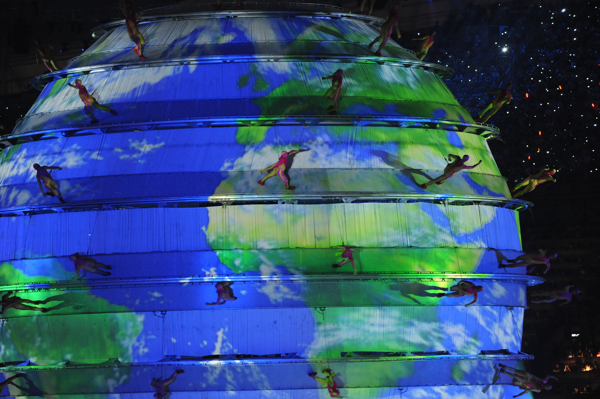 As the Opening Ceremony progressed, August 8th, 2008, 58 actors danced upon and ran around a giant globe at the Bird's Nest National Stadium in Beijing, representing the Olympic theme of "One World, One Dream." With a diameter of 18 meters and nine rings, the globe weighed about 16 tons and rose 24 meters above the stadium floor.